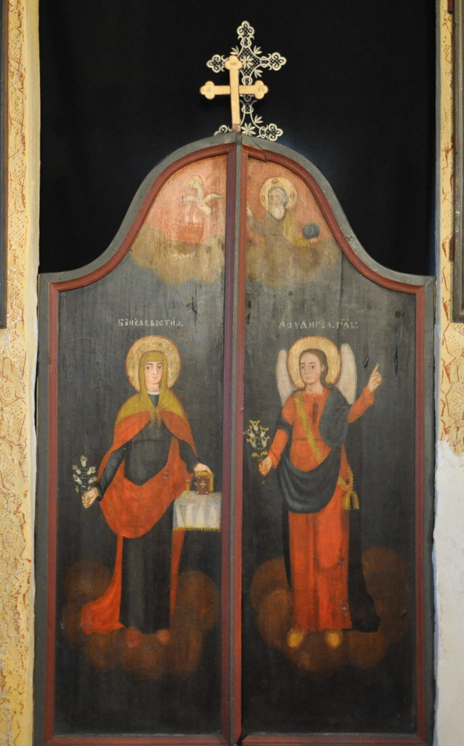 Imperial doors of the wooden church in Dobrești, Timiș county